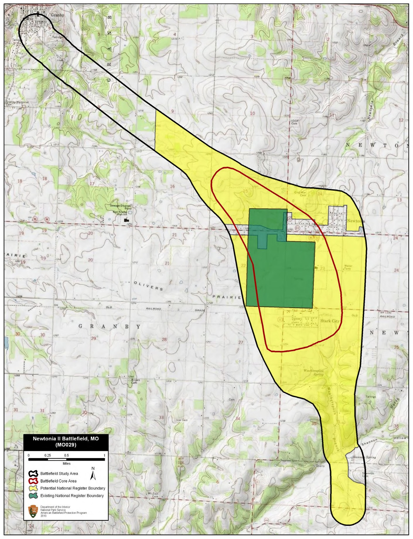 Map of battlefield core and study areas. The ABPP redrew the 1993 Study Area to include the ground (from modern day Stark City to the historic Granby Road) over which Blunt’s and Shelby’s forces fought, and to include the cornfields through which Sanborn’s reinforcements pressed Shelby’s division. Also included is the historic Granby Road, which both forces used at the beginning of the battle (segments of the road are still discernable on the landscape). The ABPP widened the Study Area to account for Confederate movements from the northwest into Newtonia, movement along the Pineville Road from Newtonia to the Confederate camp south of Newtonia, the Confederate encampment area, and the Confederate route of withdrawal from the camp to the south. The ABPP expanded the 1993 Core Area significantly to take in the full sweep of the general engagement between Blunt’s and Shelby’s forces and the later engagement between Sanborn’s reinforcements and Shelby’s division. The Core Area also now includes the position of the 1st Colorado Battery on the bluffs northwest of Newtonia.